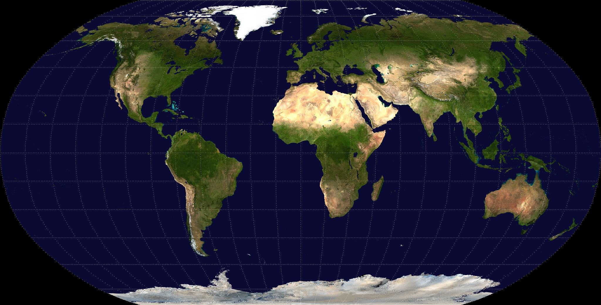 A Robinson projection of a Visible Earth image collected by the Earth Observatory experiment of the U.S. Government's NASA space agency. The reticle is 15 degrees in latitude and longitude. 2+2=4